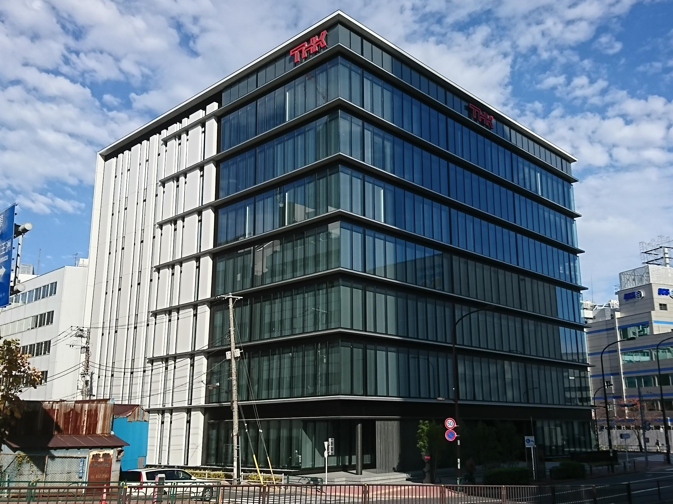 THK HQ Building. 2017-11-26.